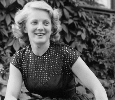 Teija Sopanen